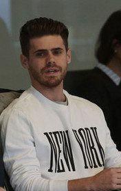 Ciudad de Buenos Aires. Mayo 24 de 2016. El jefe de Gobierno de la Ciudad de Buenos Aires, Horacio Rodríguez Larreta, encabeza la segunda reunión de la Mesa de Día sobre adicciones, que busca promover un marco de discusión que impulse ideas para reforzar la atención de esa problemática, que se llevo a cabo en la Casa de Gobierno en Parque de los Patricios.Foto Maria Ines Ghiglione-gv/GCBA.